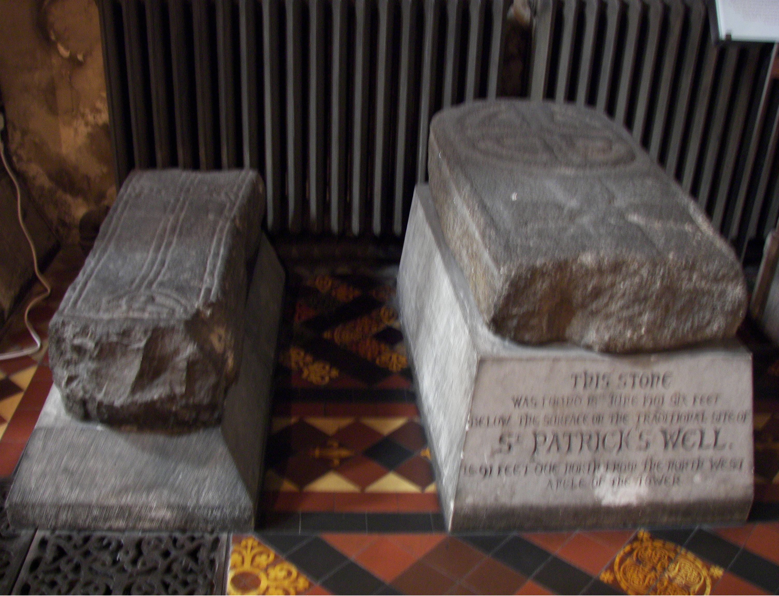 Stones, including a Celtic cross, in St. Patrick's Cathedral, Dublin. The cross was found beneath the church in the mid-19th century.